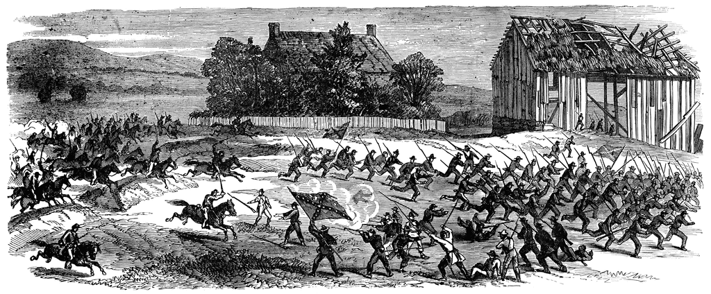 "Gallant charge of the Sixth Michigan cavalry over the enemy's breastworks, near falling Waters, Md., July 14th, 1863. The exploits of the Federal cavalry in Virginia, Maryland and Pennsylvania in 1863 would fill a volume in themselves. Among the many gallant charges there are few more brilliant than that of the Sixth Michigan at Falling Waters, where they rode, without drawing rein, right over the Confederate breastworks, scattering all before them. The cavalry were not more than sixty at most, but they charged up a steep hill in the face of a terrific fire; and though they lost in killed and wounded nearly two-thirds of their number, they captured almost the entire force of the enemy, with three regimental battle flags."— Frank Leslie, 1896